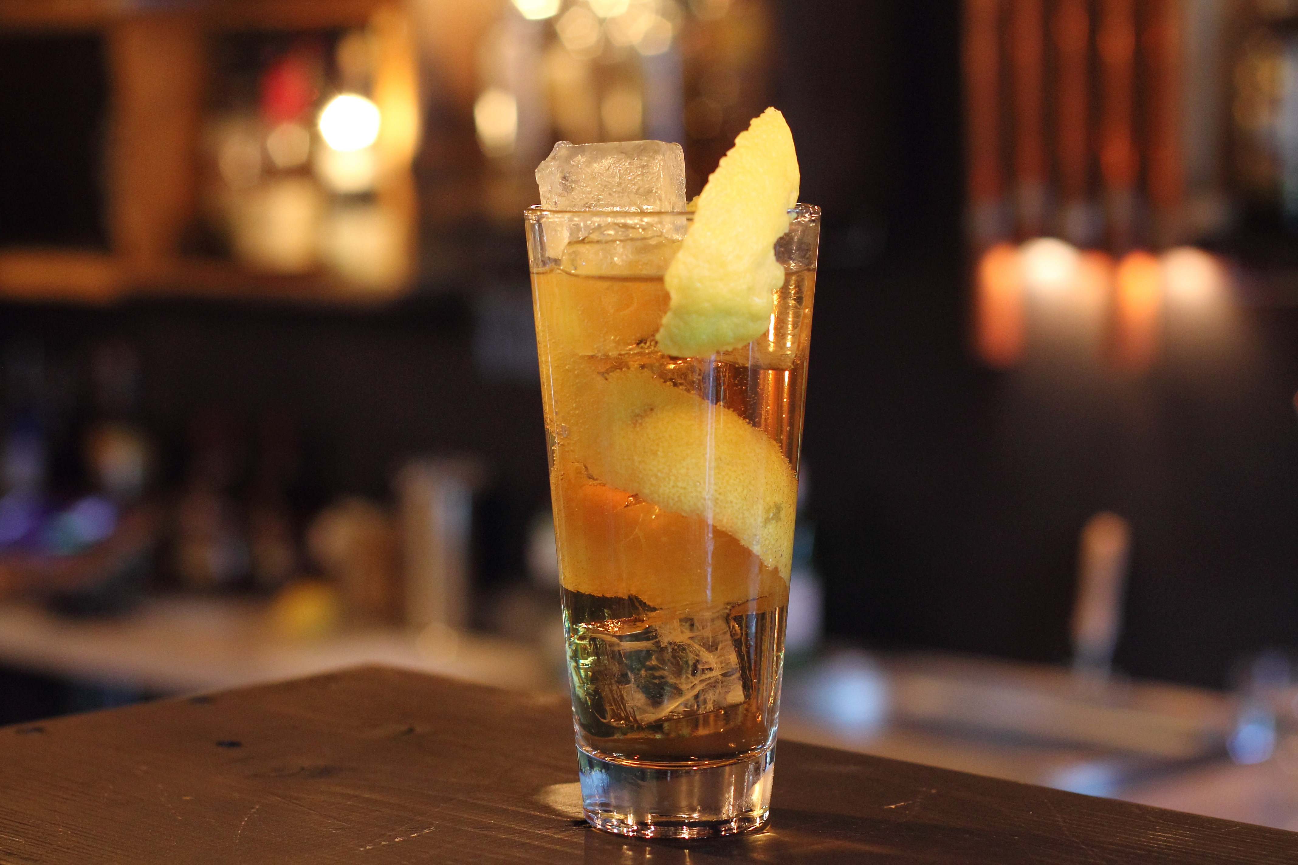 Horses Neck with typical garnish.